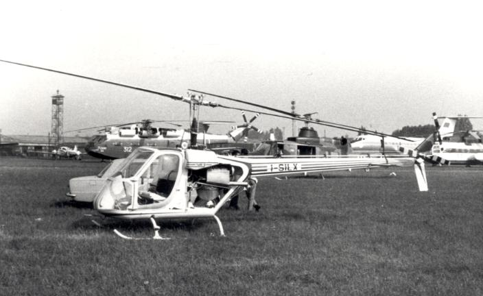 Silvercraft SH-4 helicopter I-SILX at the Paris Air Salon Le Bourget